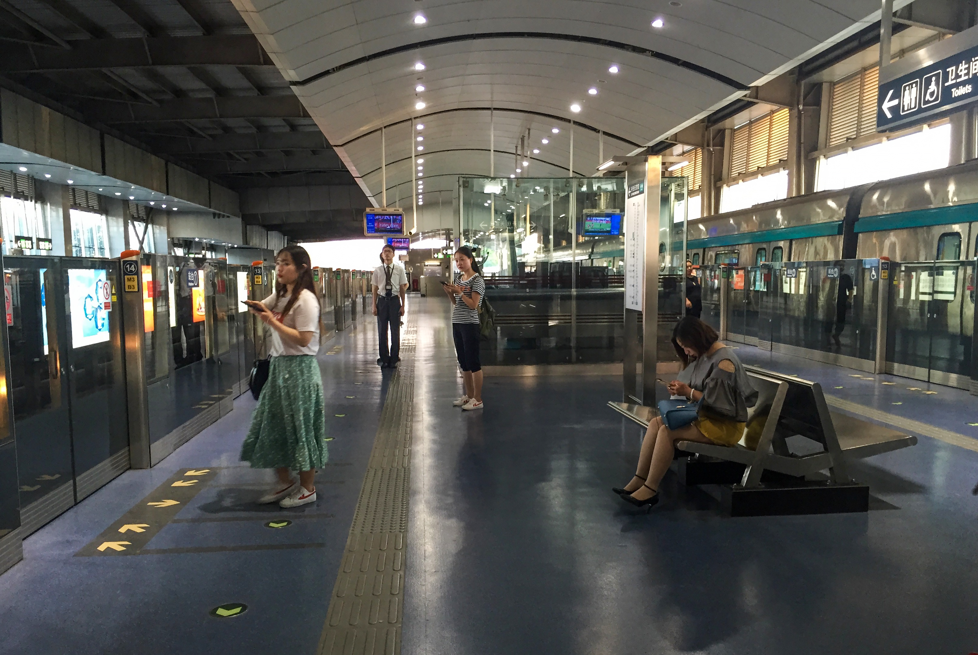 Main departure platform #1 on the left, and secondary platform #3 on the right.